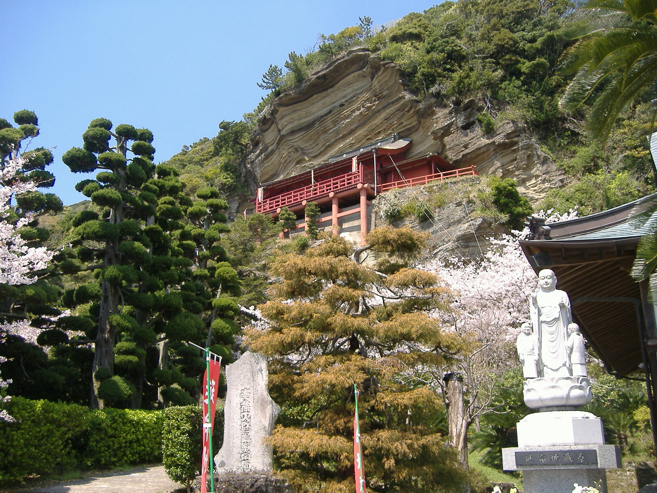 Daifukuji Gakekannon(Tateyama, Chiba, japan)